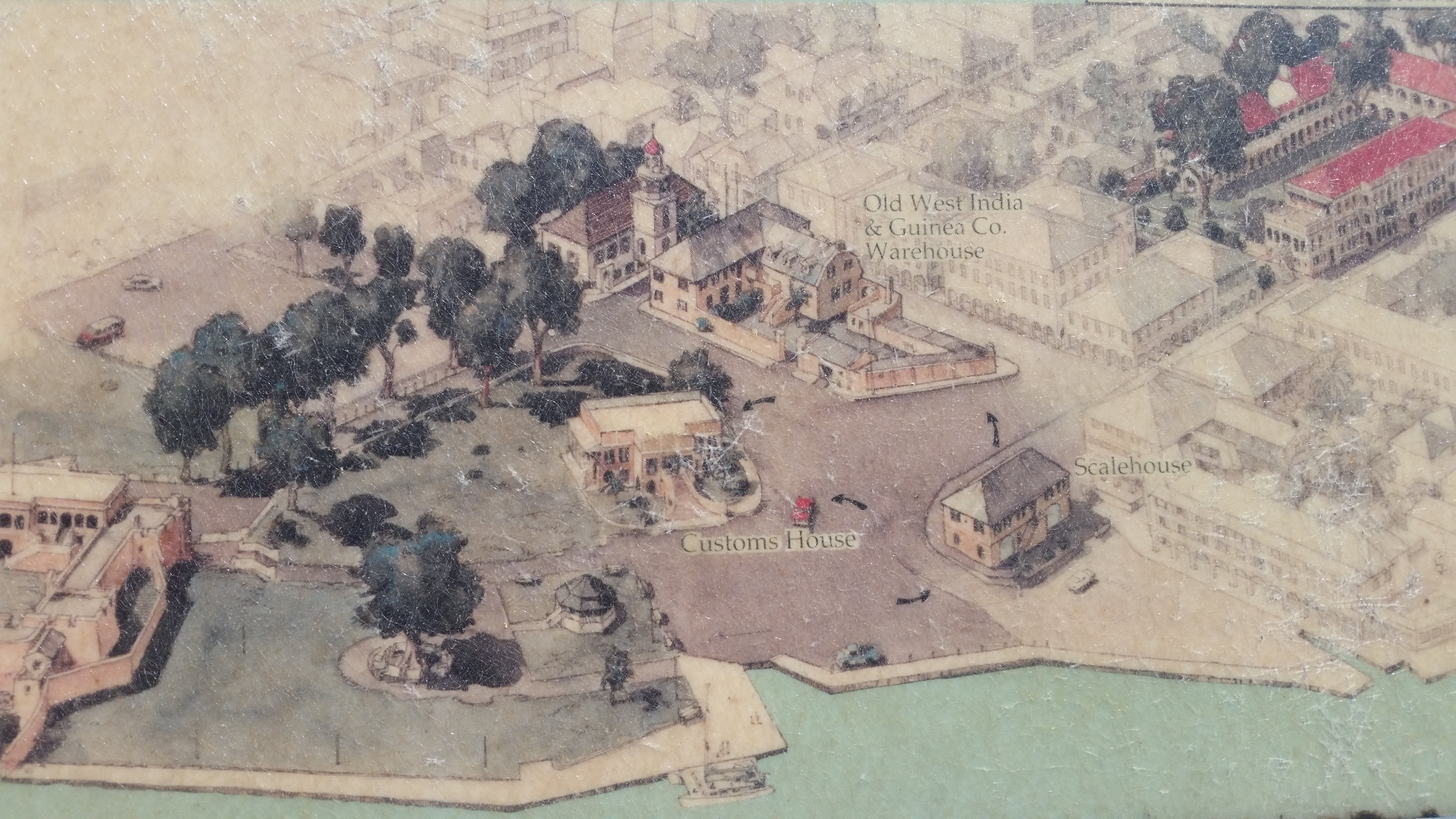 US National Park Service marker for the Christiansted National Historic Site